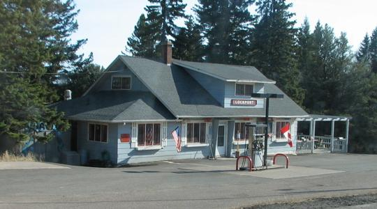 Cropped version of :Image:Lockport.jpg uploaded to Wikipedia and released into the public domain by copyright holder and photographer User:chris.et when published on Wikipedia on 5 August 2007, at :Image:Lockport.jpg.